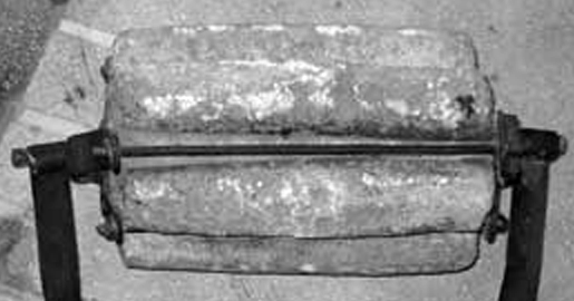 A threshing stone for grains from Bordei Verde commune, Brăila County, România, 1936.